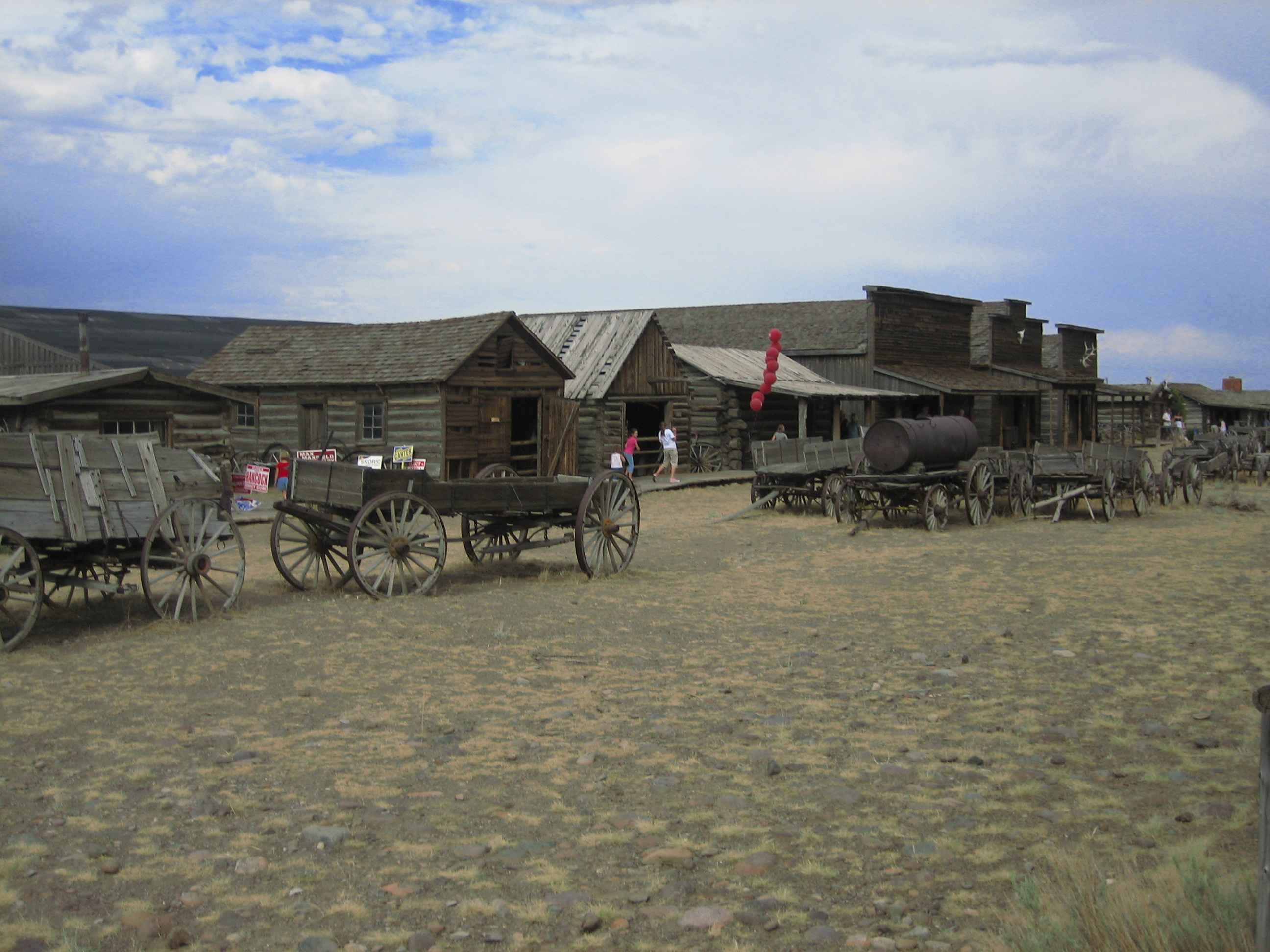 Old Trail Town in Cody, Wyoming.